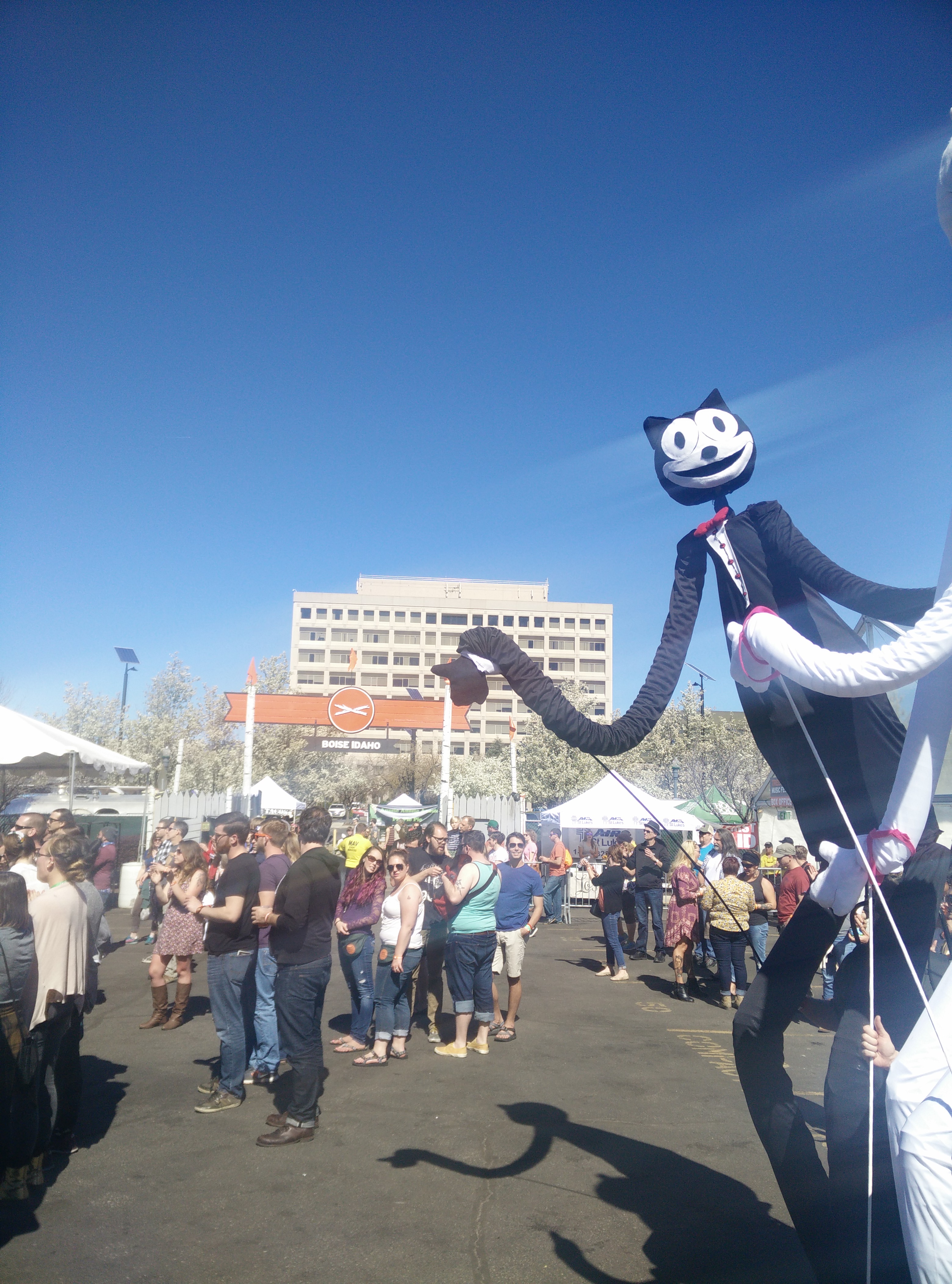 Giant cat puppets at the main stage of the 2015 Treefort Music Fest in Boise, Idaho.